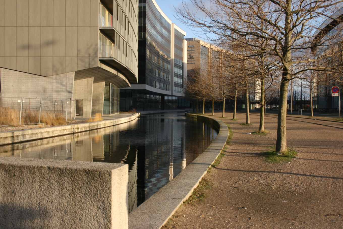 Arne Jacobsens Allé at Ørestad, Copenhagen.